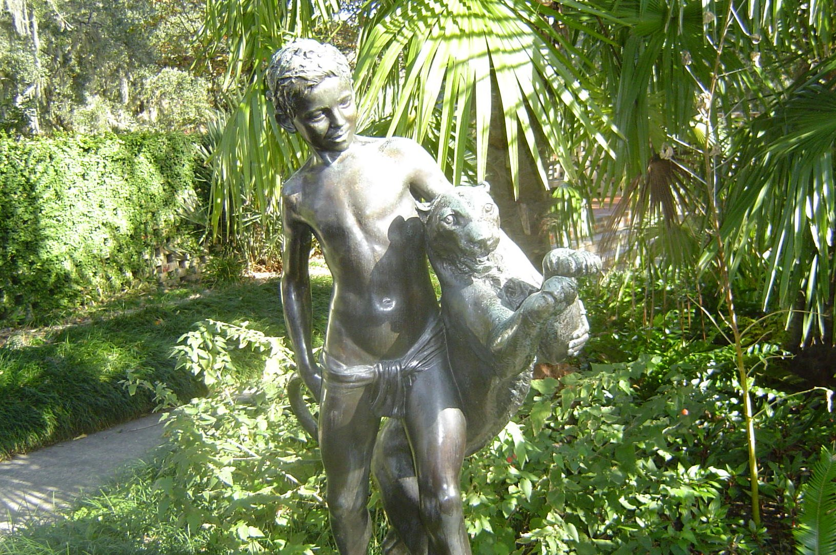 Brookgreen Gardens - sculpture garden: Boy and Panther by Rudulph Evans, based on Rudyard Kipling's Mowgli.